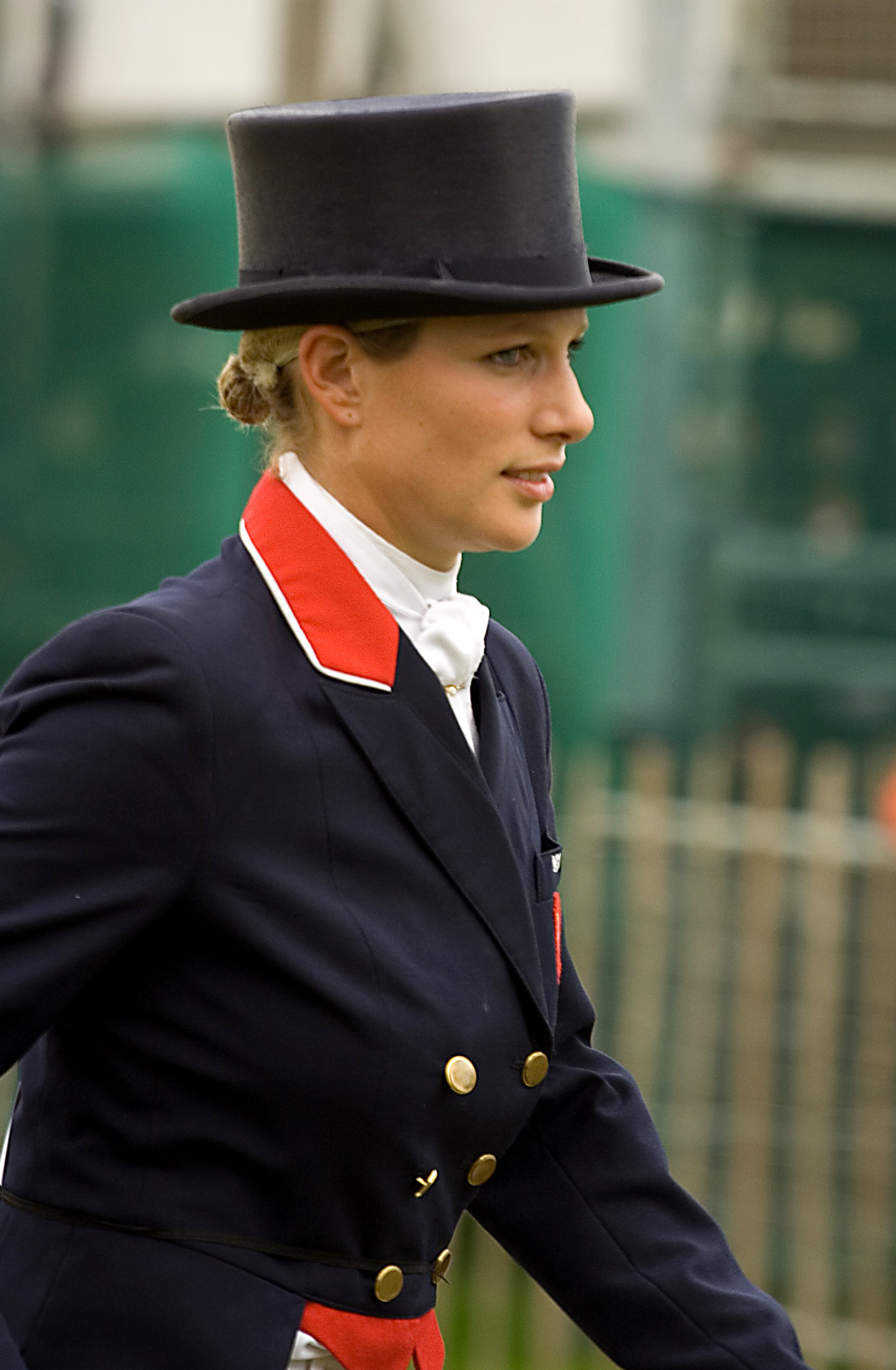 Zara Phillips, shot Sunday 2nd September 2007 at Burghley Horse Trials Zara finished 24th riding Ardfield Magic Star